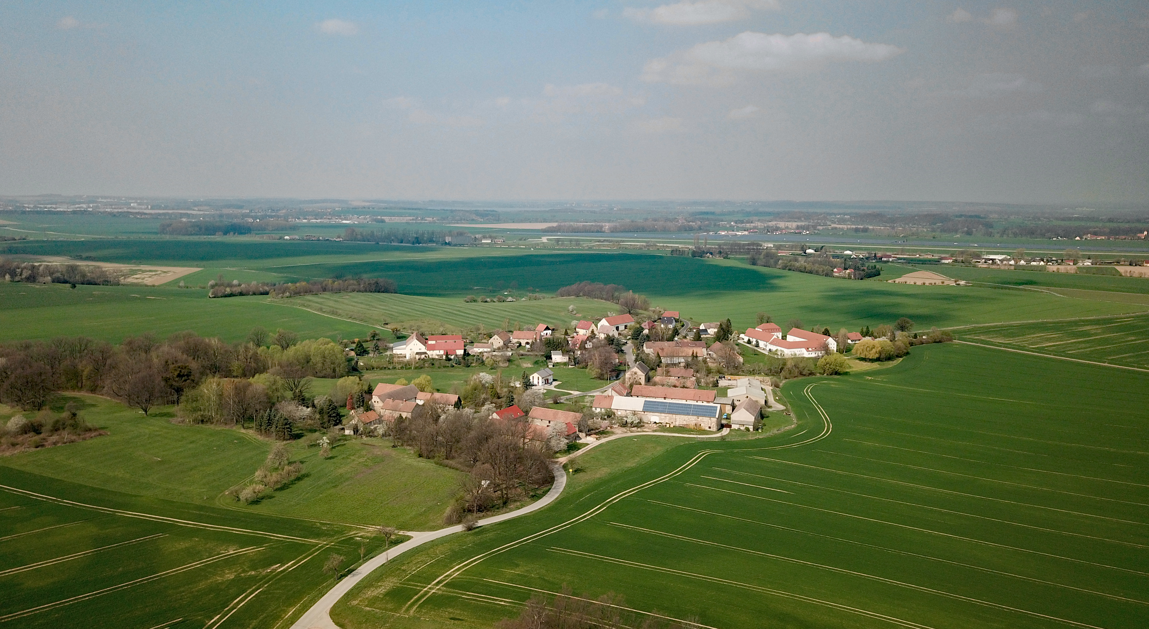 Canitz-Christina (Kubschütz, Saxony, Germany) Hornjoserbsce: Powětrowy wobraz Konjec pola Kubšic Dieses Foto wurde mit einem Quadcopter innerhalb der RMZ des Flugplatzes EDAB aufgenommen. Der Flugleiter wurde am Aufnahmetag telephonisch über Ort und Zeit informiert und hat zugestimmt. Der Flug erfolgte auf Grundlage der Allgemeinverfügung der Landesdirektion Sachsen zur Erteilung der Betriebserlaubnis für unbemannte Luftfahrtsysteme und Flugmodelle gemäß § 21a LuftVO und Zulassung von Ausnahmen von Betriebsverboten gemäß § 21b LuftVO für den Freistaat Sachsen.